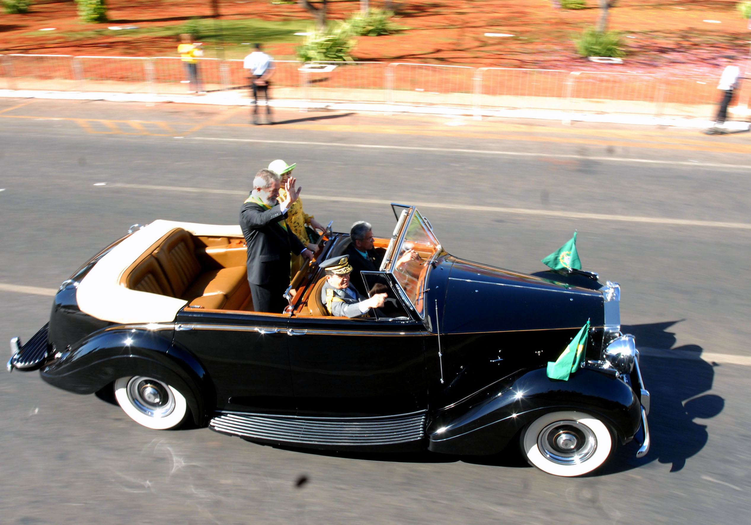 Brazilian presidential ceremonial state car with President Lula